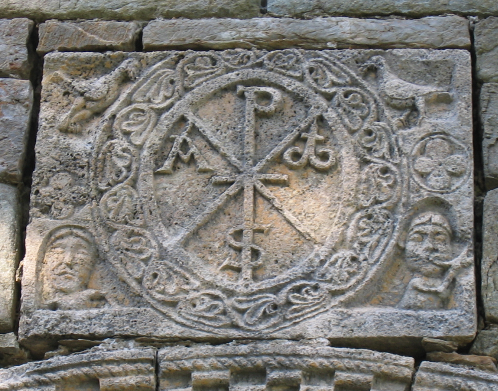 Chi-Rho symbol in relief (12th century), Santa Maria de Cóll church, Vall de Boí, Catalonia, Spain